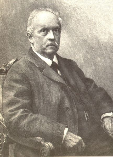 Hermann von Helmholtz.